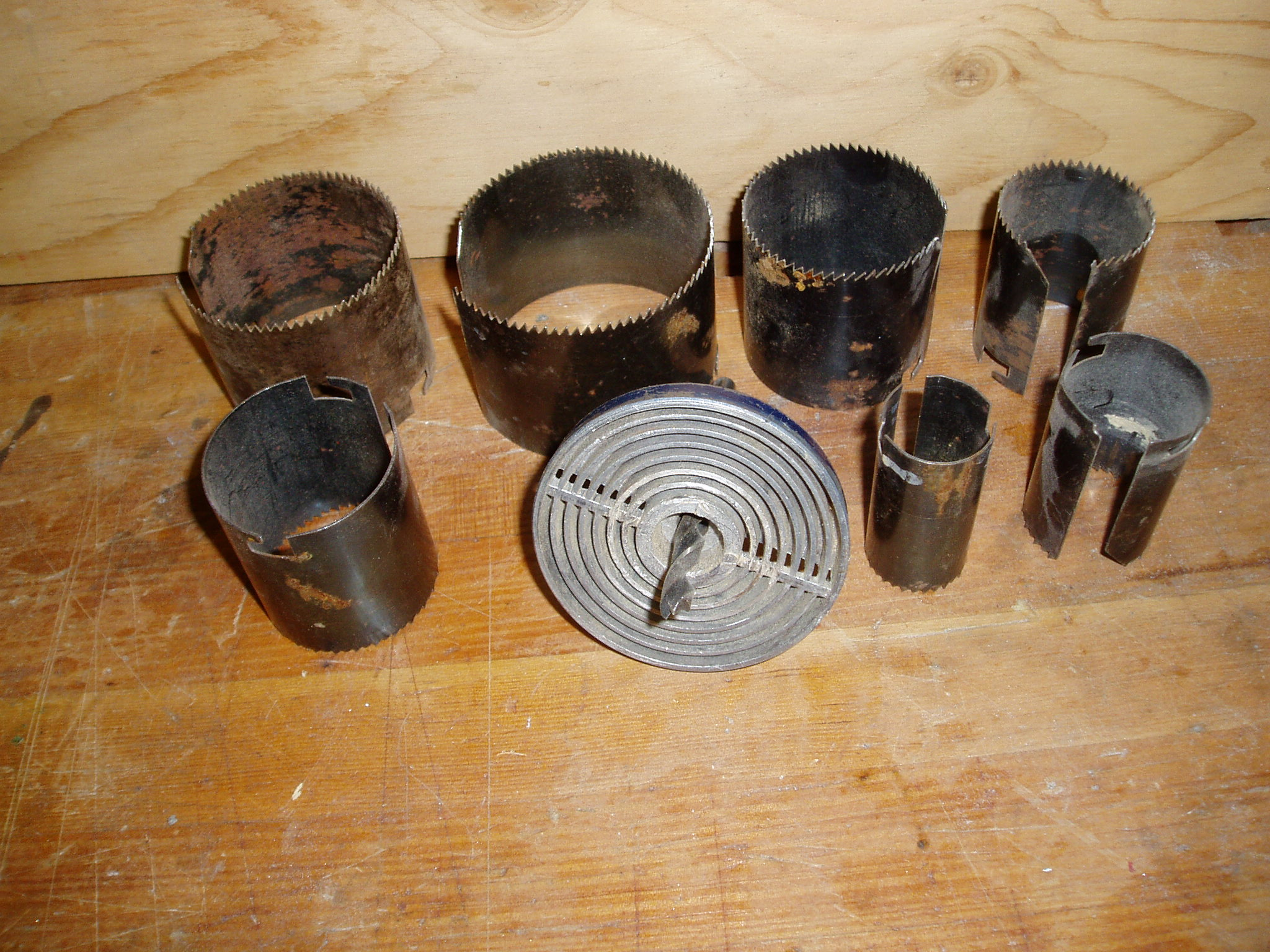 Picture of adjustable hole saw taken 30 August, 2005 by Luigi Zanasi (myself) on my workbench using a Olympus digital camera.